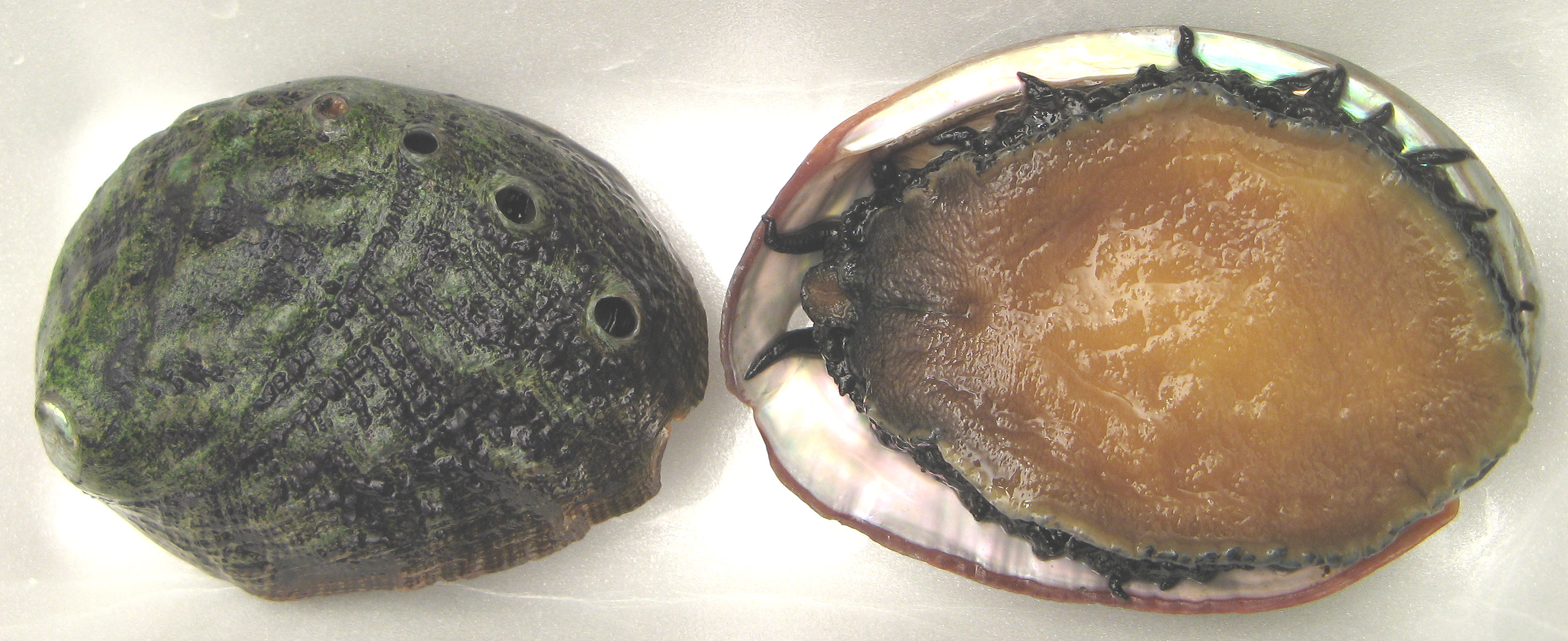 Two White Abalones (Haliotus sorenseni) Photographed and uploaded by user:Geographer